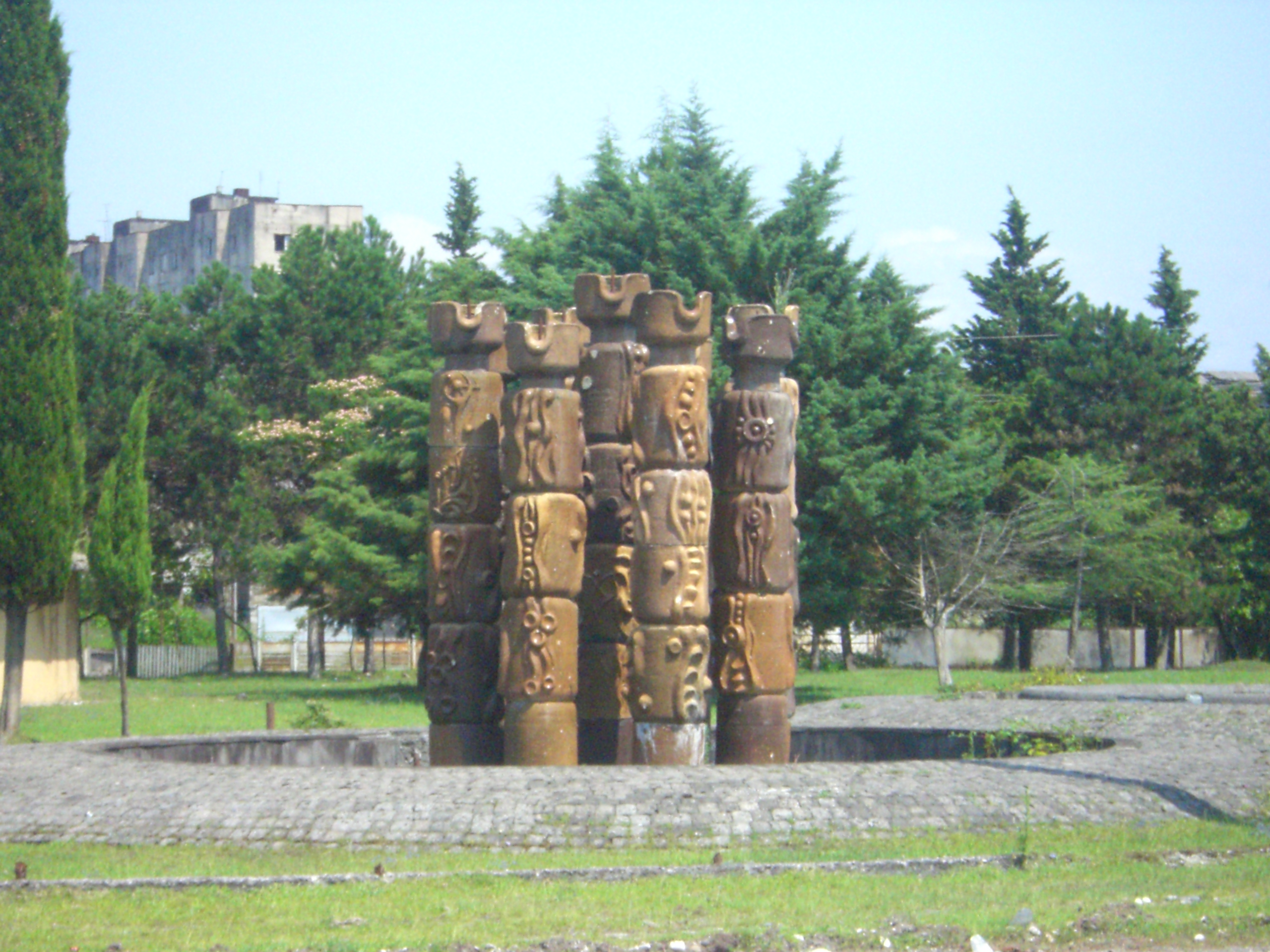 former fountain in Ochamchira, Abkhazia